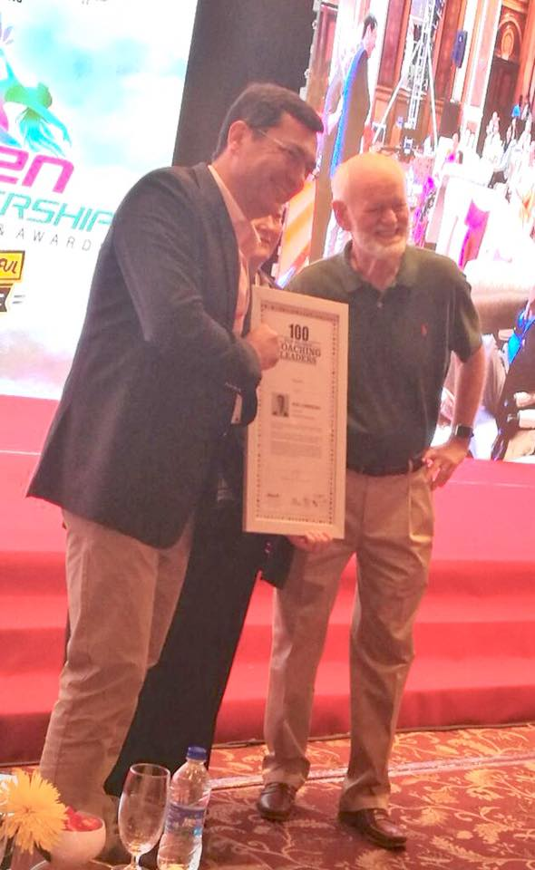 Nigel Cumberland receiving from his mentor Dr Marshall Goldsmith an award as one of the top 100 global coaching leaders Stakeholder Centered Coach Coaching Marshall wrote the Foreword to the book 100 Things Successful People Do Mumbai World HRD Congress